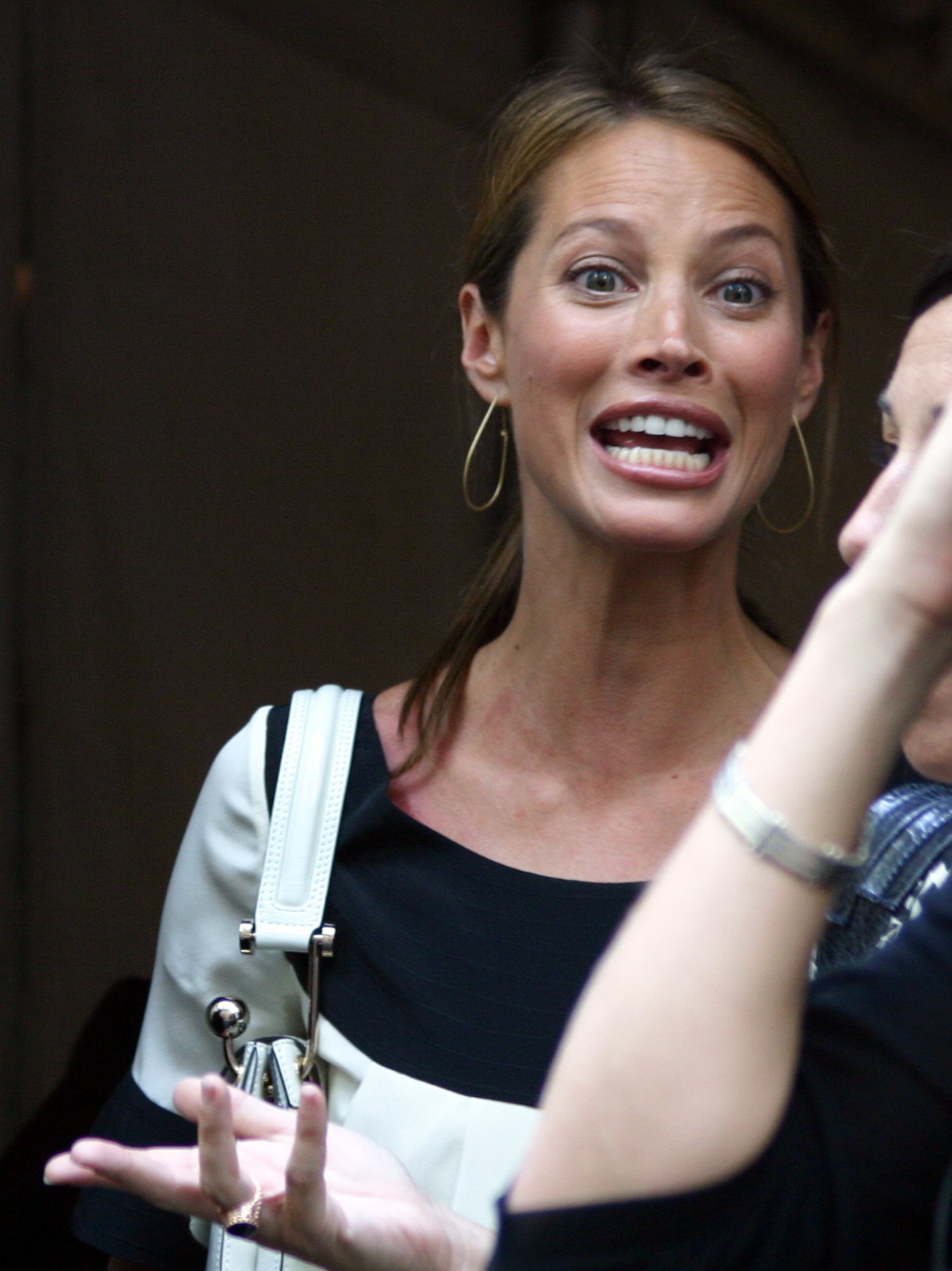 Supermodel Christy Turlington greets the press as she emerges from the Bryant Park tents during Mercedes-Benz Fashion Week, New York City, September 8. 2007.